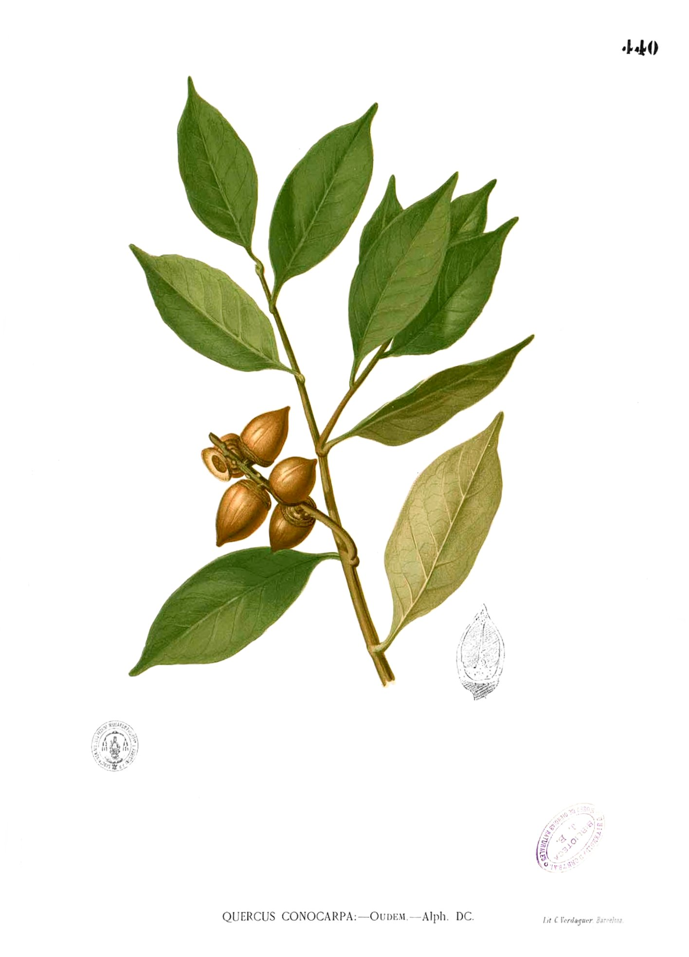 Plate from book